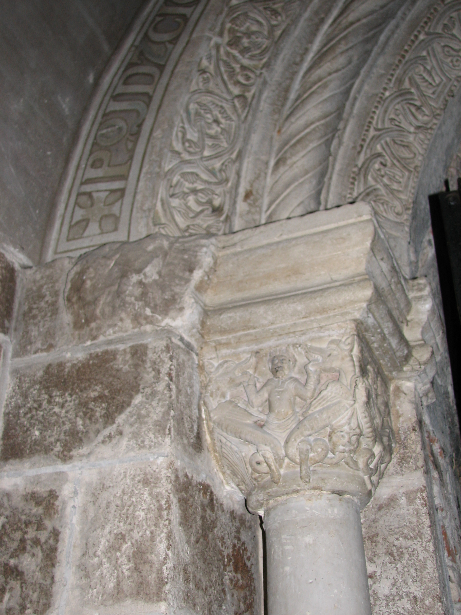 Romanesque church in Czerwińsk nad Wisłą.